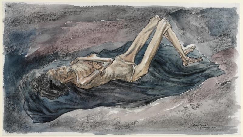 A starving skeletal naked women lying on a blanketed stretcher